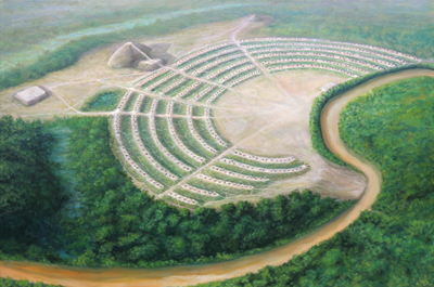 Artists conception of the Poverty Point archaeological site near Epps, Louisiana at it's height. The site was declared a UNESCO World Heritage Site in the spring of 2014, only the 22nd in the United States to be added to the World Heritage List and the first in Louisiana. Oil painting, 24" x 36", 2014.